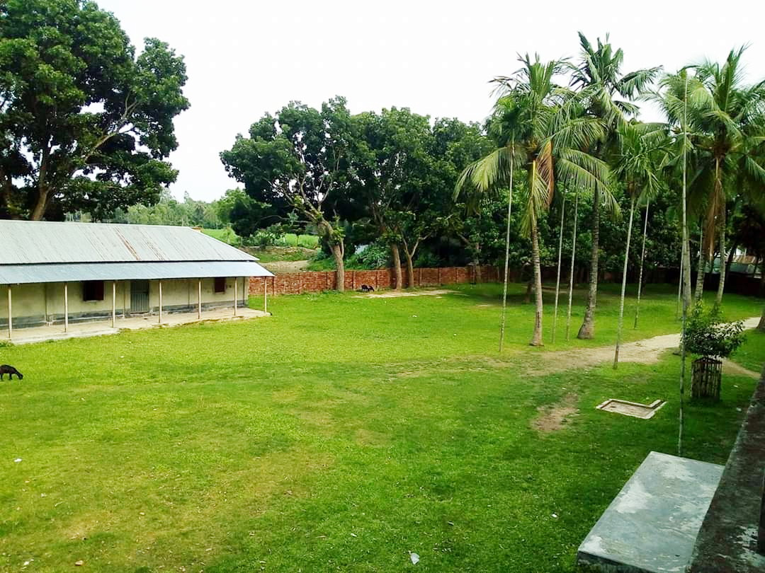 Ashraf Zindani High School